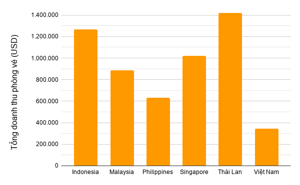 Line chart of the Southeast Asia box office of Blade Runner 2049 in Vietnamese